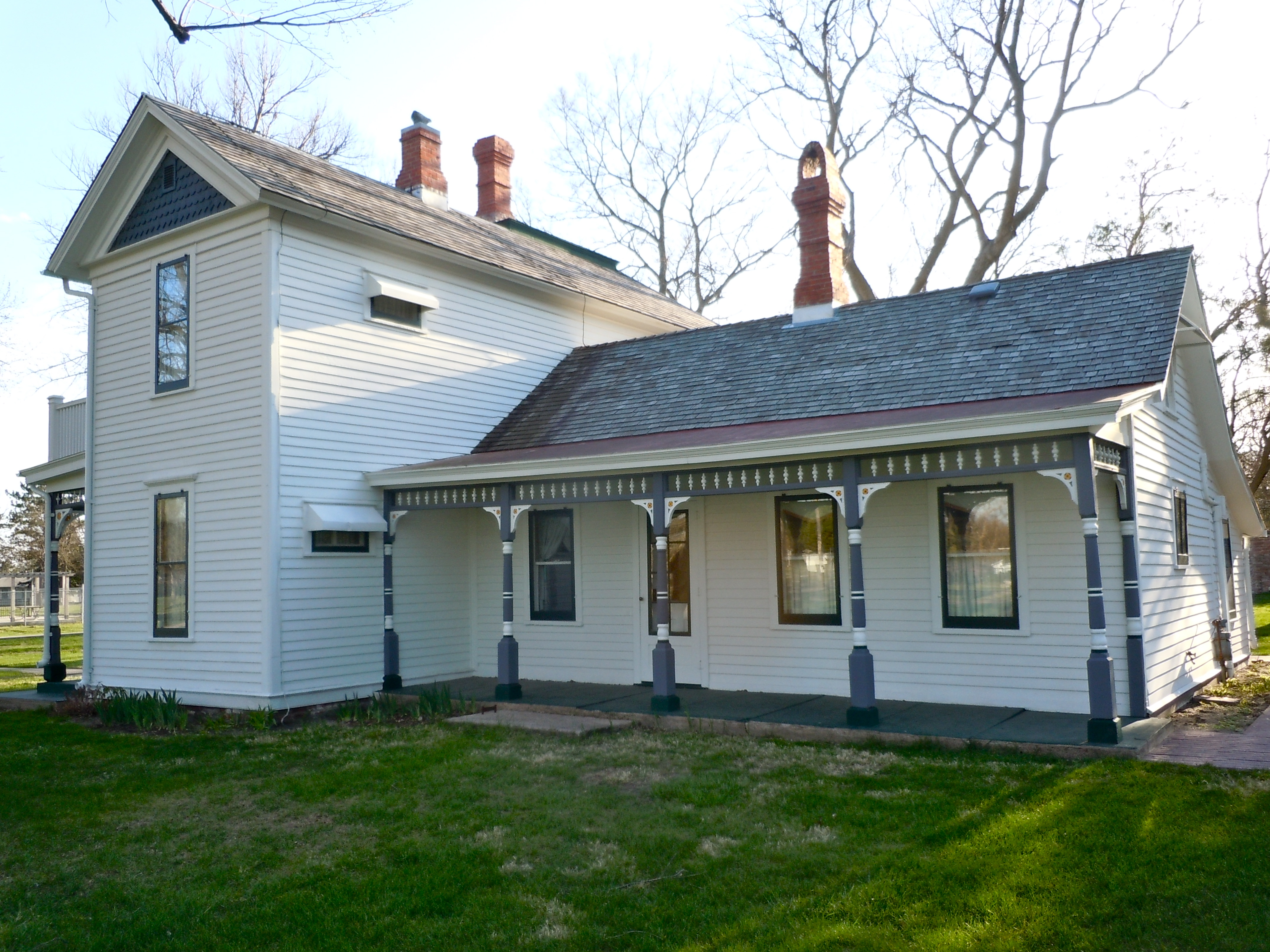 Stolley Homestead Site on the NRHP since March 16, 1972. In Stolley Park, Grand Island, Hall County, Nebraska. There is also a log cabin moved from another site and a few outbuildings that may also have been moved. In the middle of a very large park with baseball diamonds, soccer fields, etc. Coords about 40.9017,-98.3592